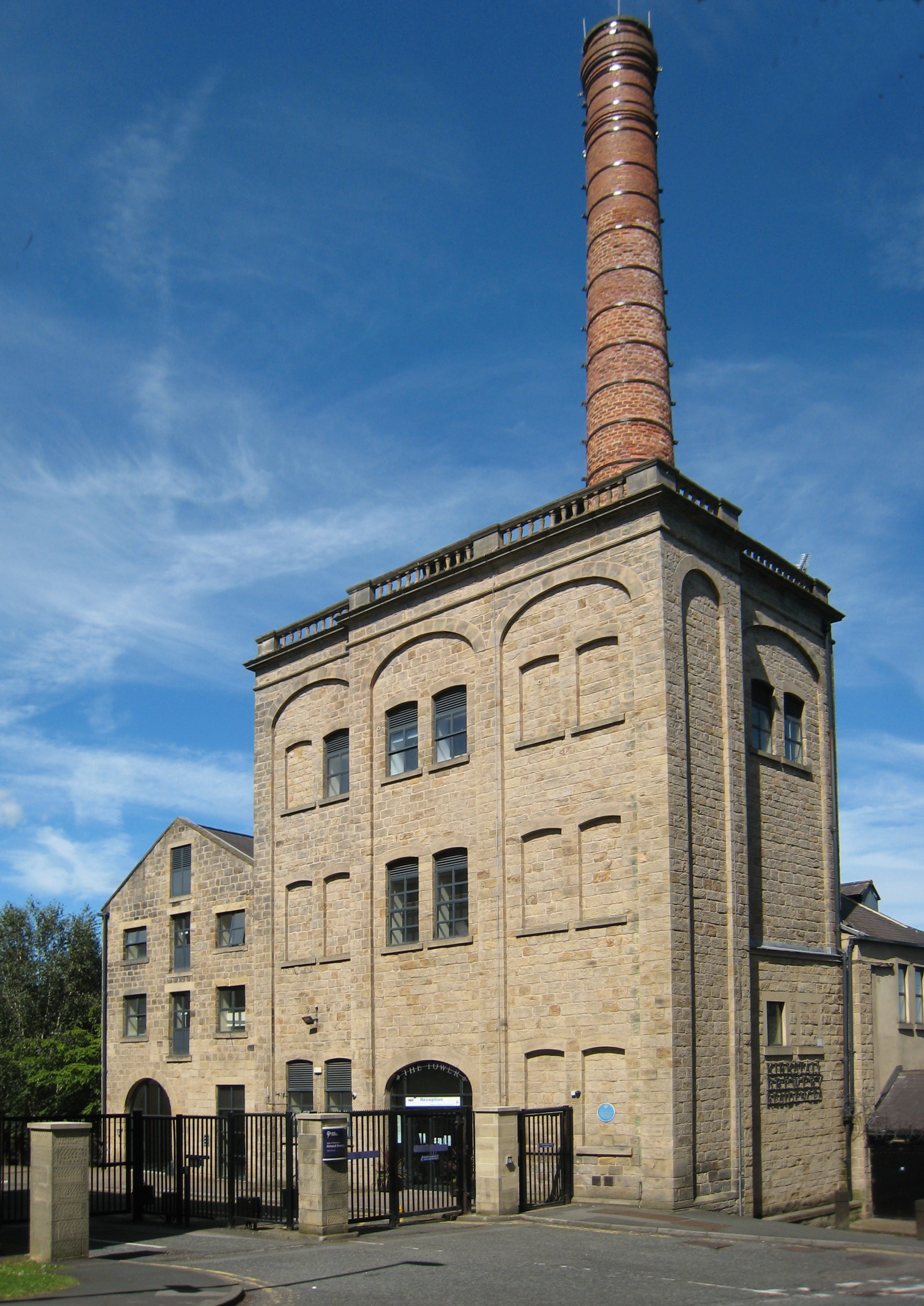 The former Kirkstall Brewery, Broad Lane, Kirkstall Leeds. Now student residences. Main entrance, brewery tower building and brick chimney behind.